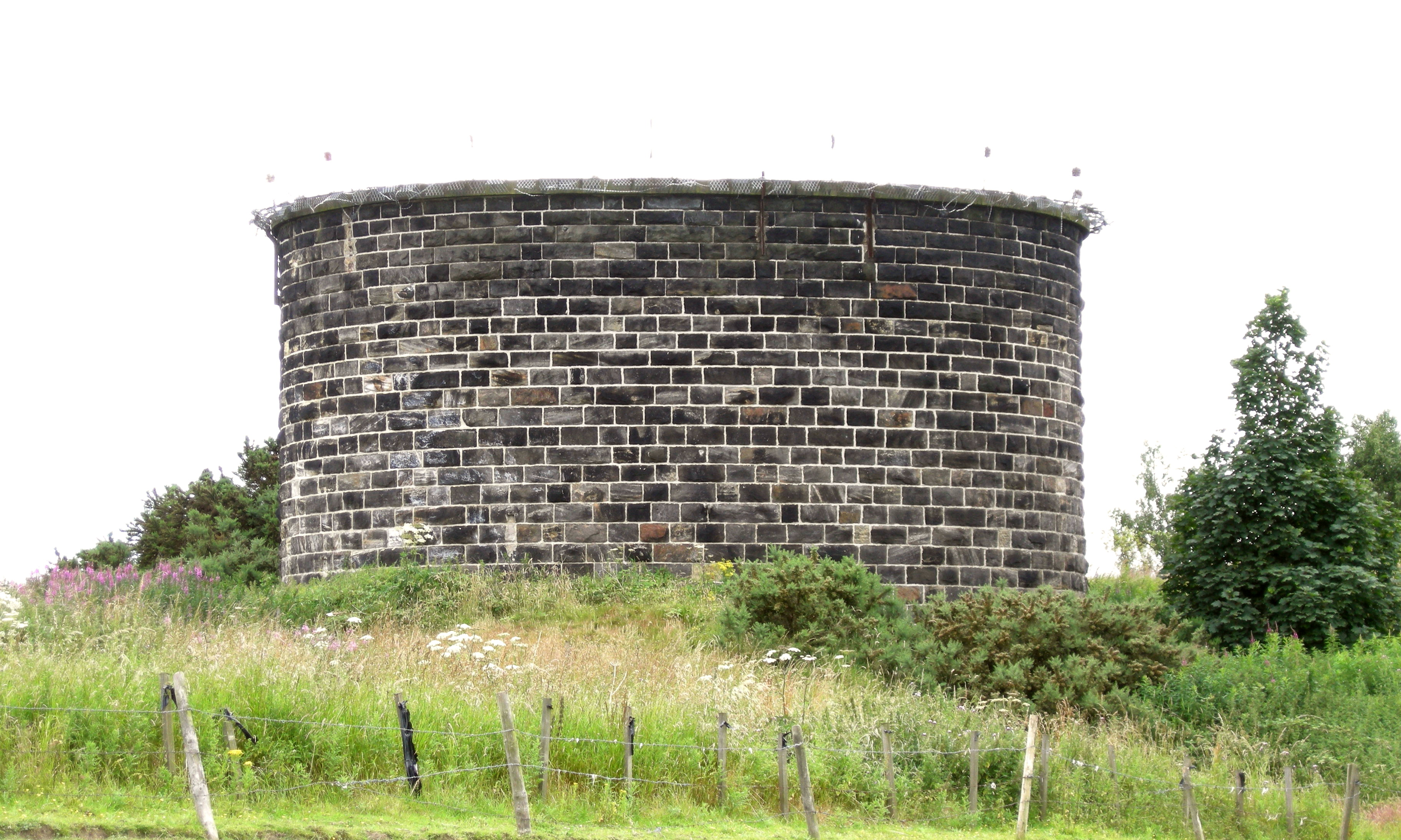 Ventilation shaft over Bramhope Tunnel, built 1845-49, Bramhope, West Yorkshire, England.